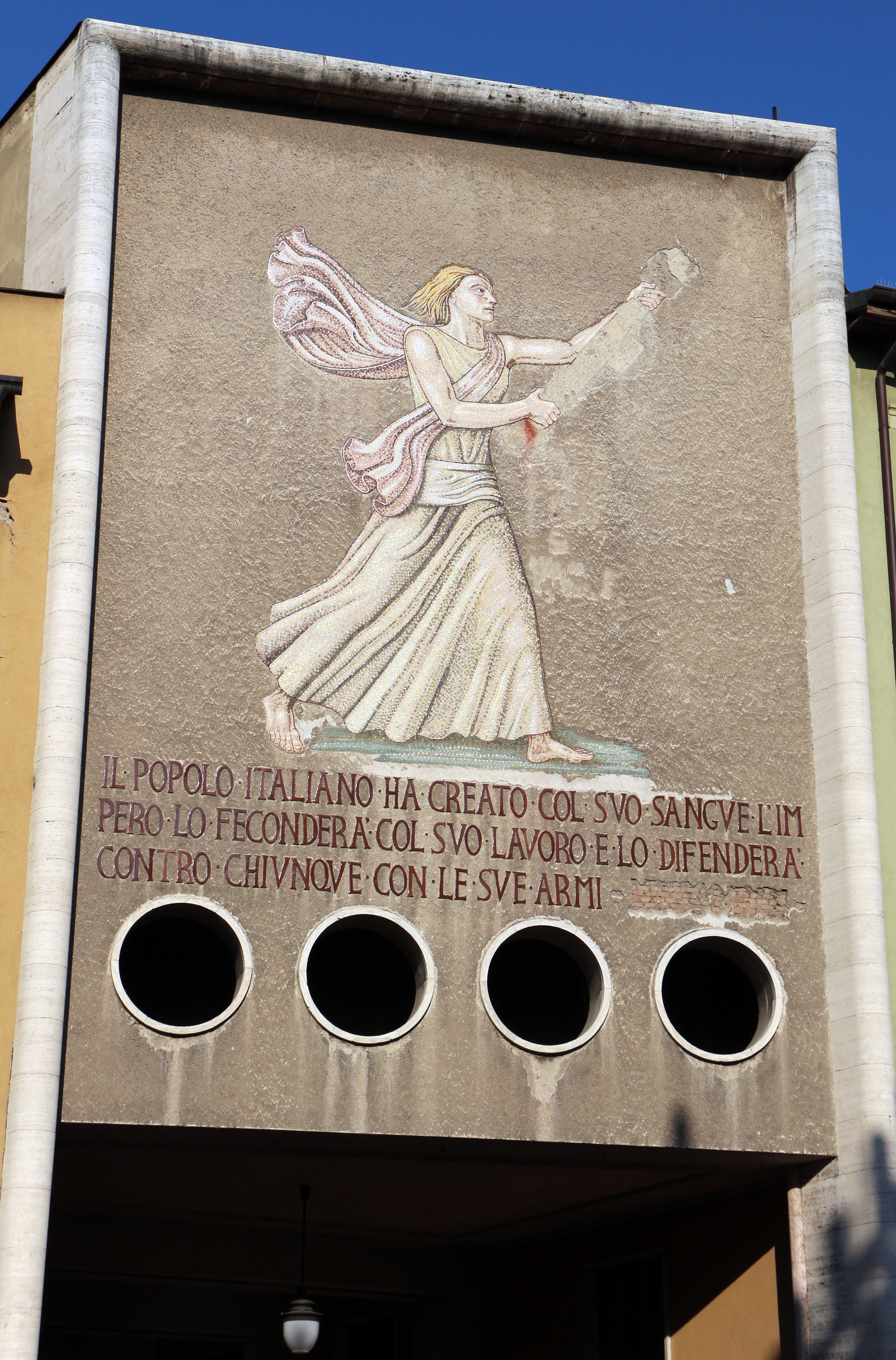 English